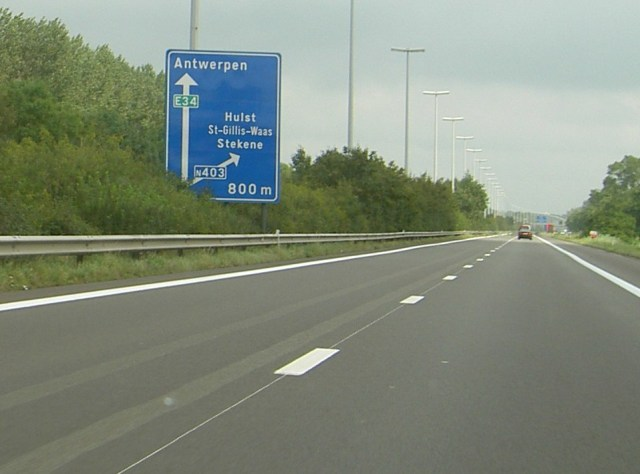 European Route E34 at Hulst in Belgium